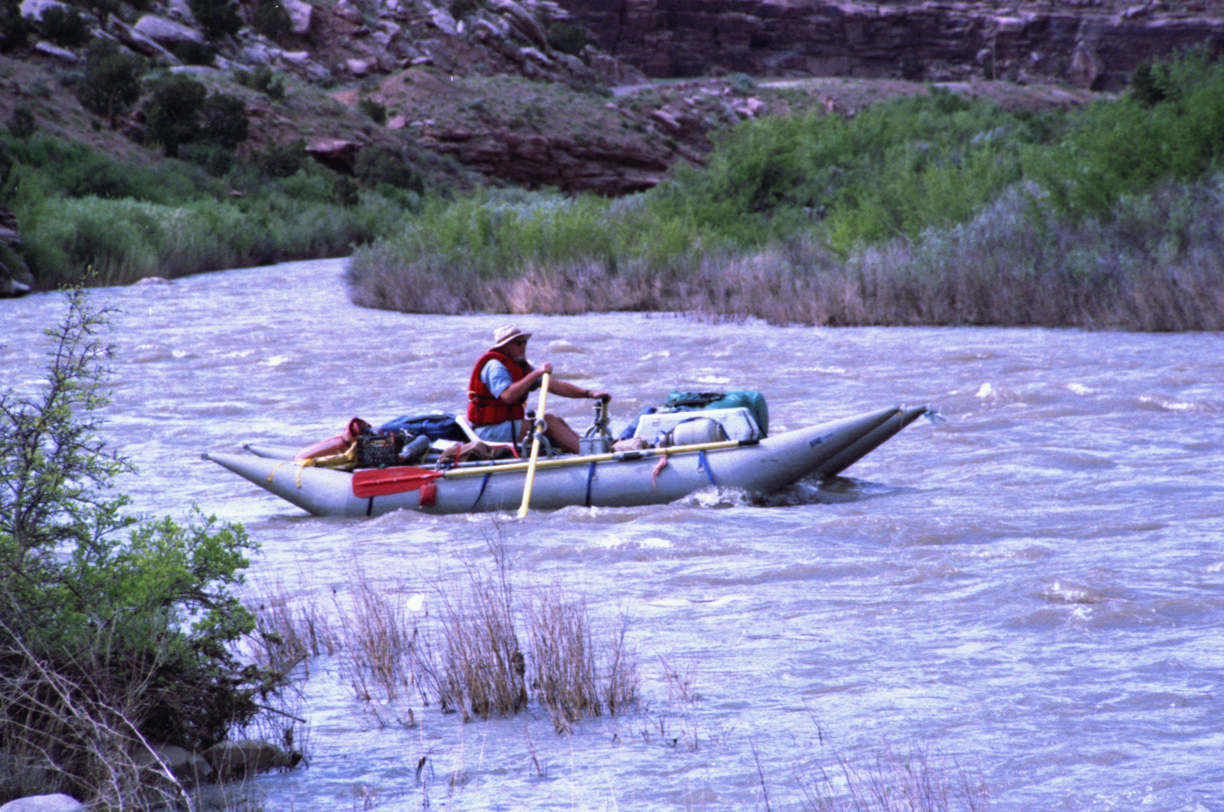 Barry Massey took this photo of New Mexico State Representative Max Coll solo at the oars just below Slick Rock, Colorado, on the Delores River in 1997.